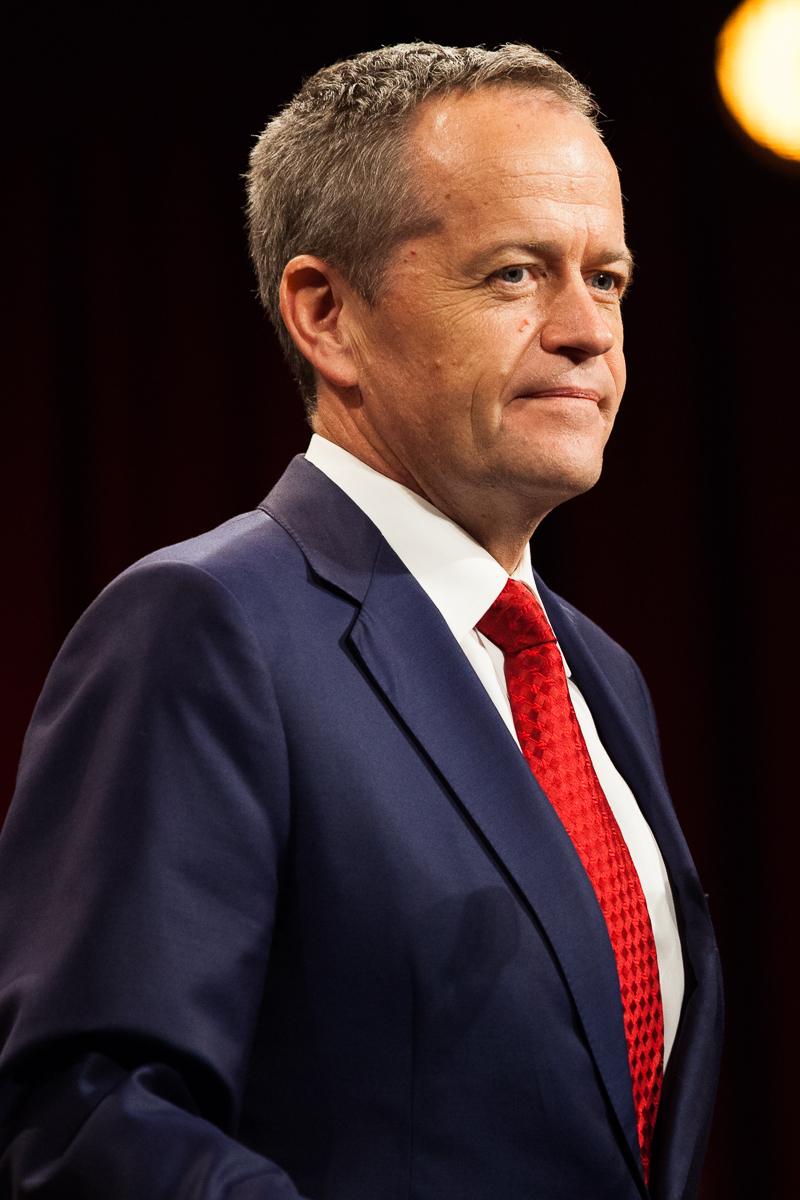 Leader of the Australian Labor Party Bill Shorten. Taken at the Australian Labor Party 2016 Election Campaign Launch in Penrith.